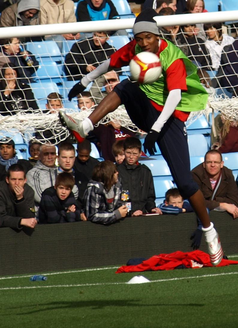 Ashley Young at an open trainig sesion at Villa Park [2009], By Gus Stephens